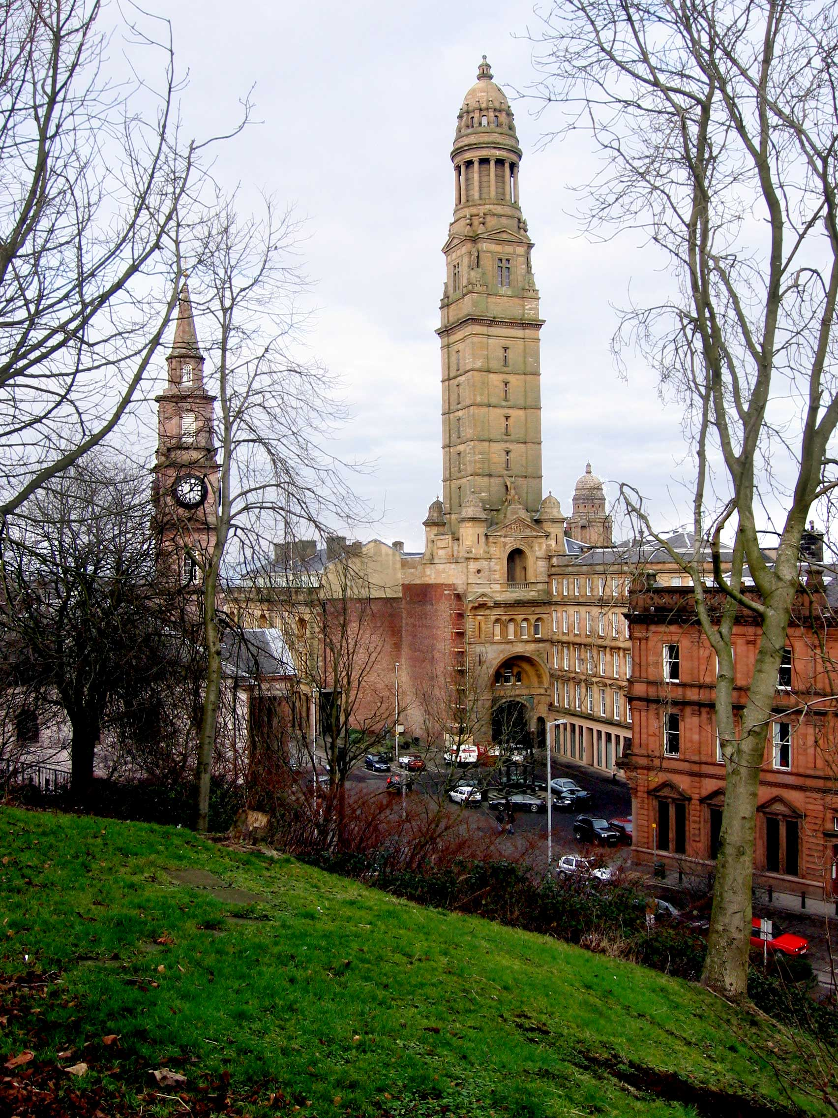 Greenock Municipal Buildings featuring the Victoria Tower photograph taken in February 2006 by User:Dave souza. Any re-use to contain this licence notice and to attribute the work to User:Dave souza at Wikipedia.